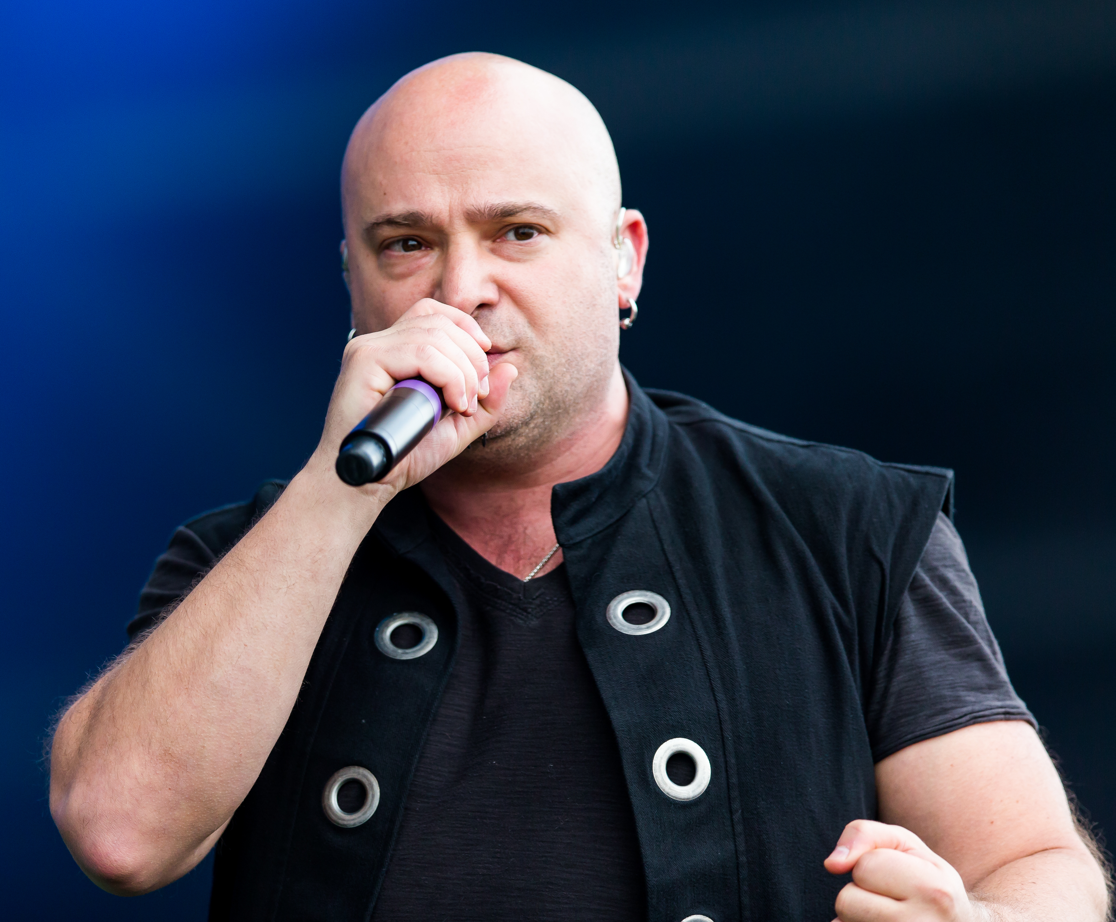 Disturbed at Rock am Ring 2016